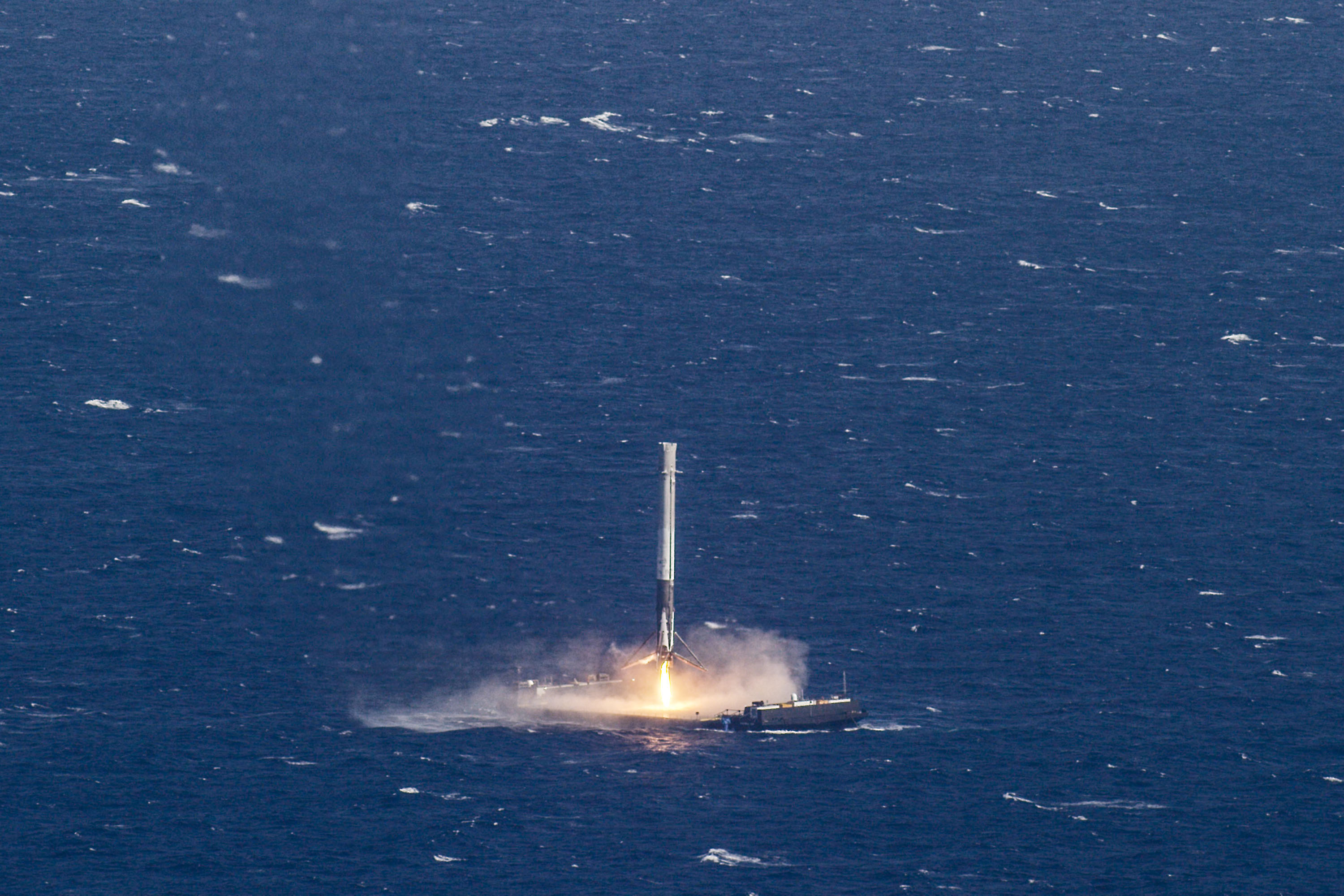 Landing of the first stage Falcon 9 booster which helped launch CRS-8.